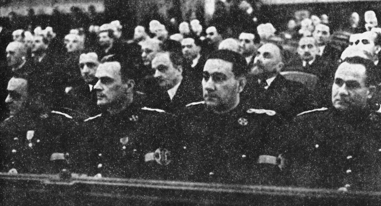 The founding session of Romania's single-party, the National Renaissance Front (FRN), Bucharest, 1938. Front row, from left, in gala uniforms of the FRN: Armand Călinescu (soon to be Prime Minister), Grigore Gafencu, Mihai Ralea, Mitiță Constantinescu.The picture was published in Almanahul Timpul, 1940.